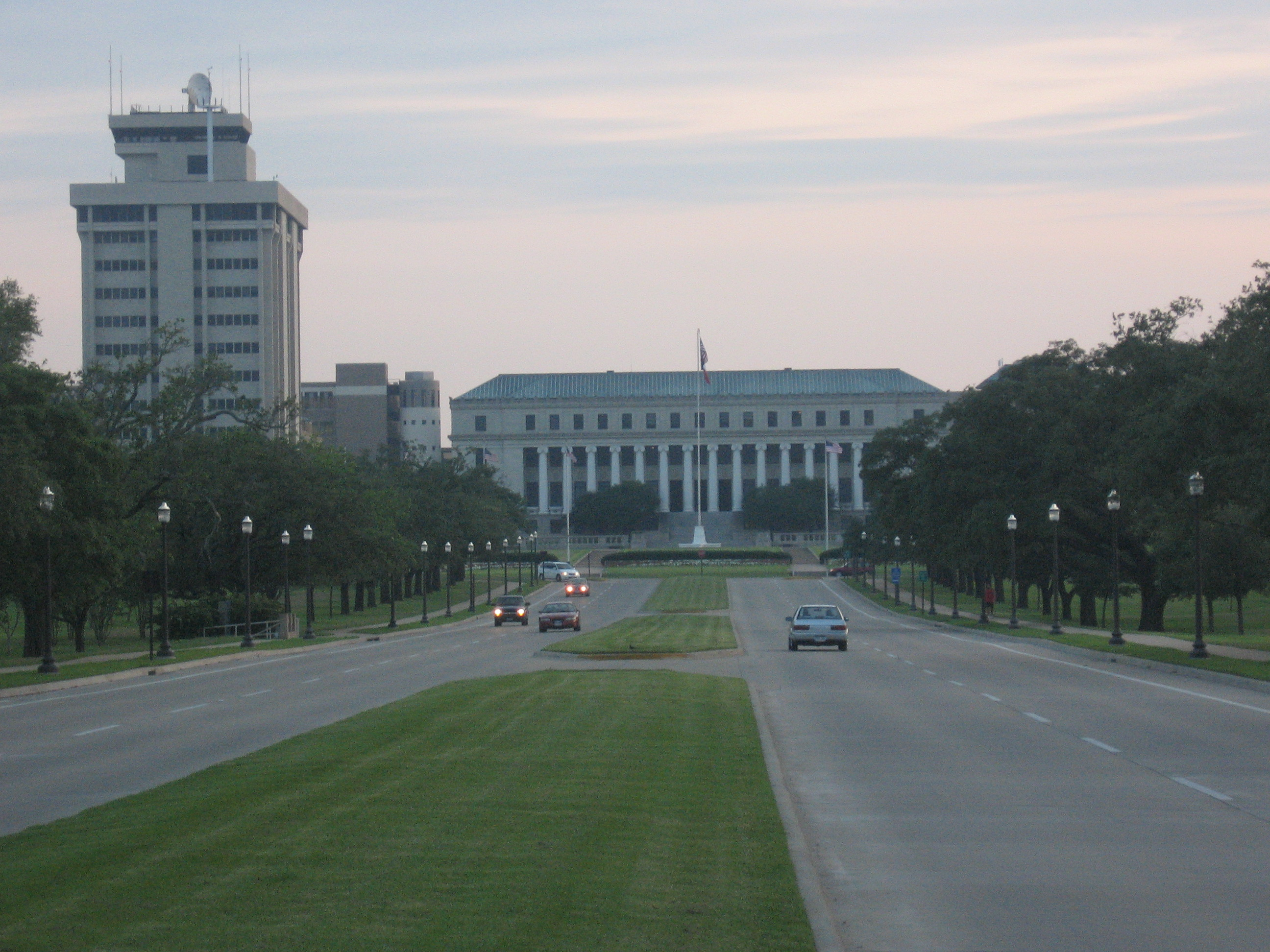 Texas A&M Administration building at a&m at sunset